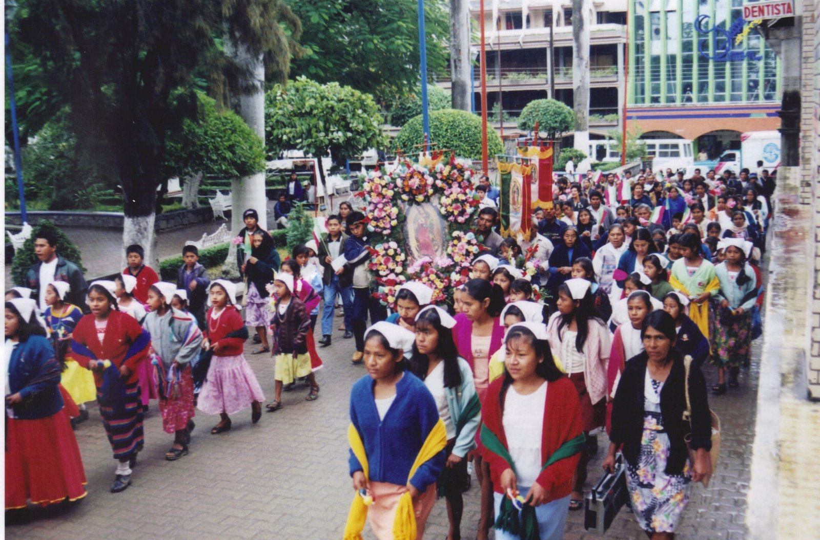 Danza de las inditas